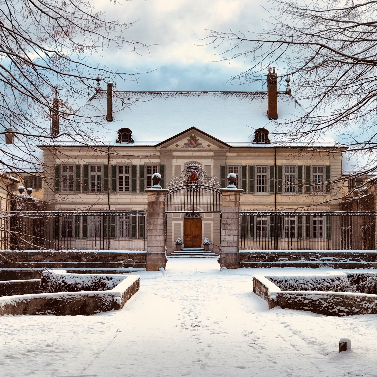 Chateau Vullierens